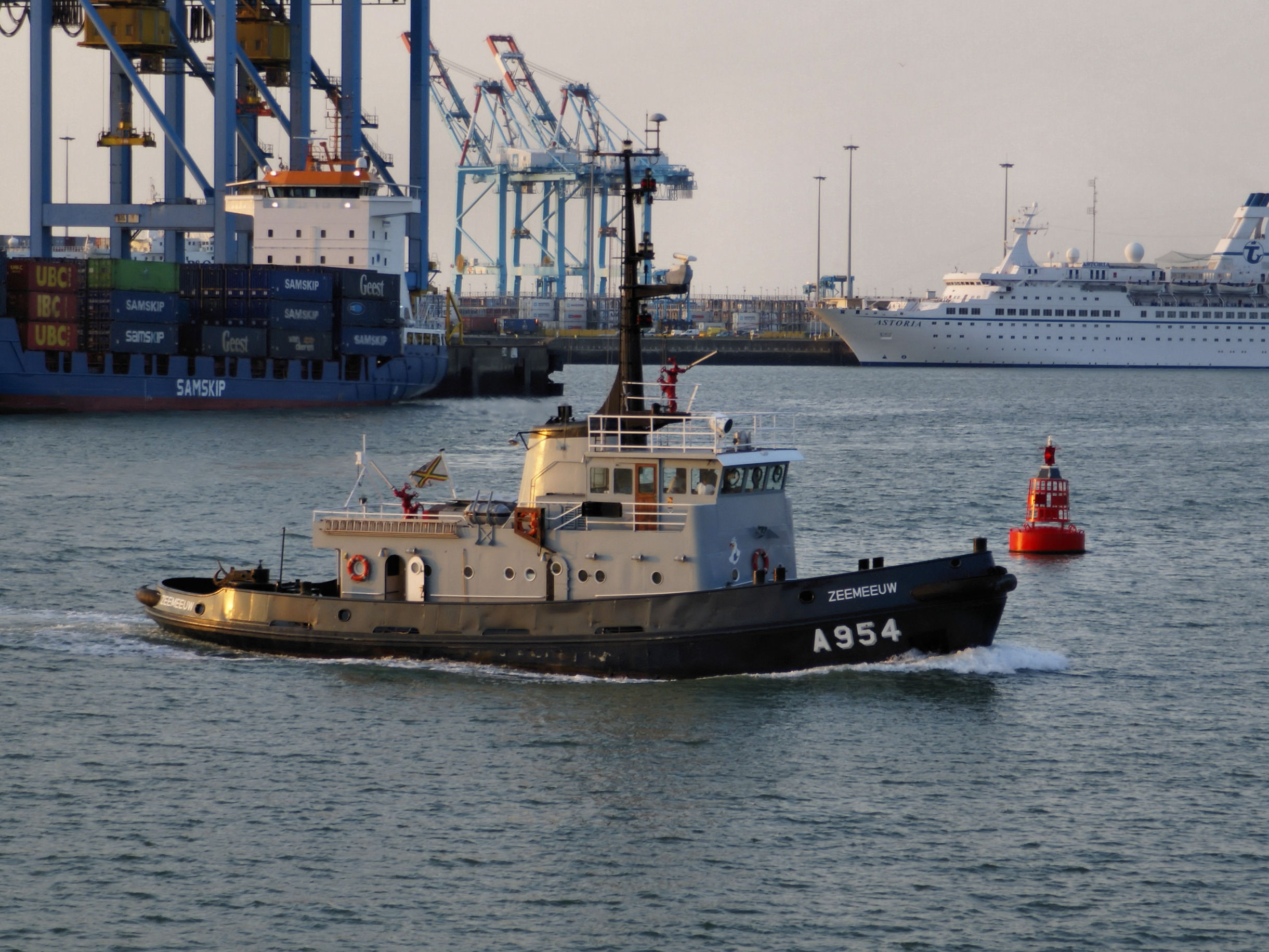 The Zeemeeuw A954 at Zeebrugge port, Belgium.